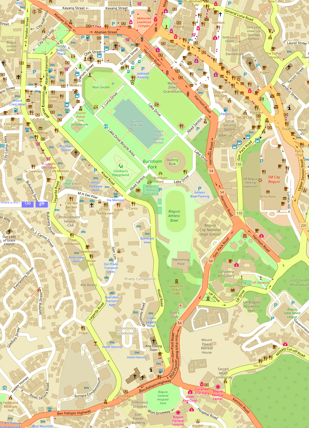 Burnham Park as displayed in Open Street Map